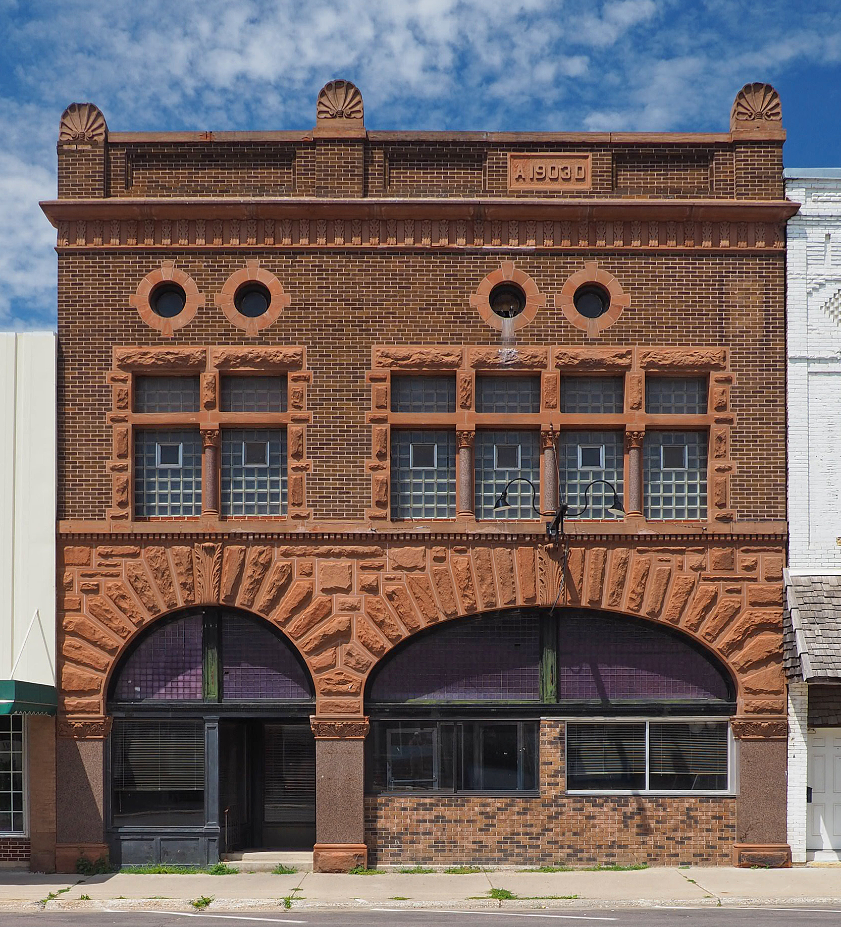 Bank of Long Prairie, 262 Central Ave, Long Prairie, Minnesota, USA. Viewed from the south.